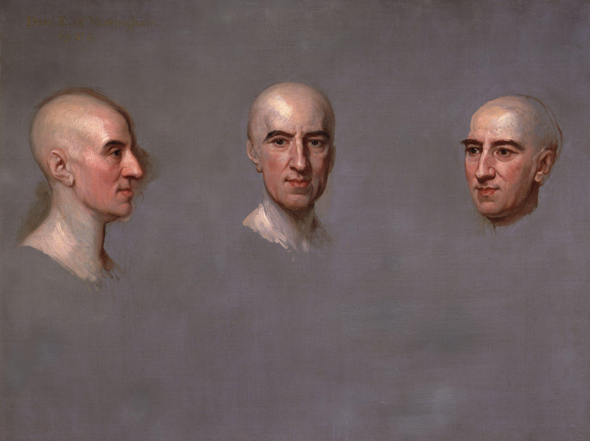 Daniel Finch, 2nd Earl of Nottingham and 7th Earl of Winchilsea, by Sir Godfrey Kneller, Bt (died 1723), given to the National Portrait Gallery, London in 1954. All images in this batch have been confirmed as author died before 1939 according to the official death date listed by the NPG.